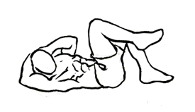 an exercise of abs